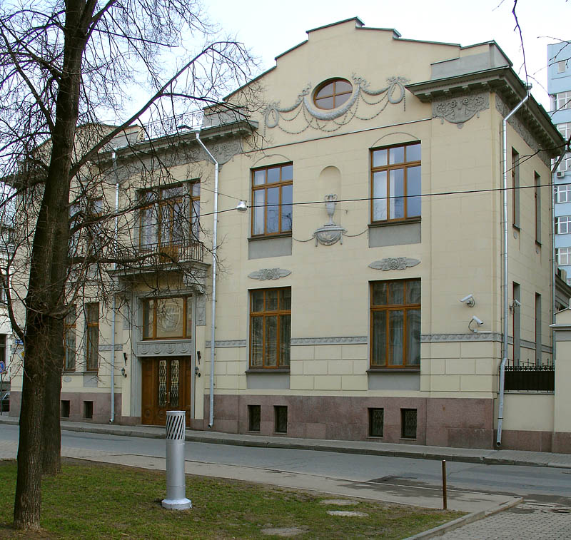 4/21, Maly Rzhevsky Lane, Moscow.